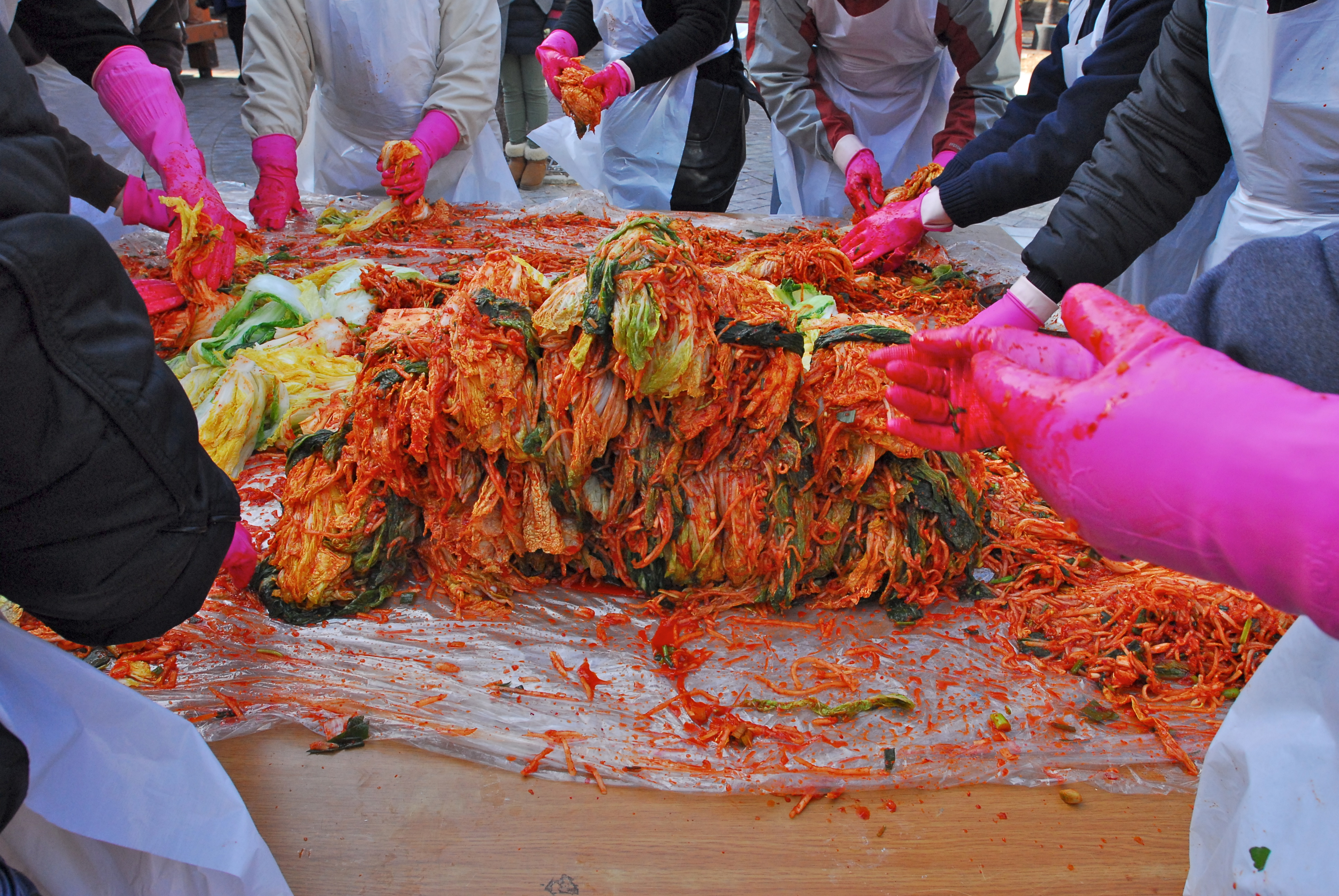 Gimjang: kimchi making for the winter